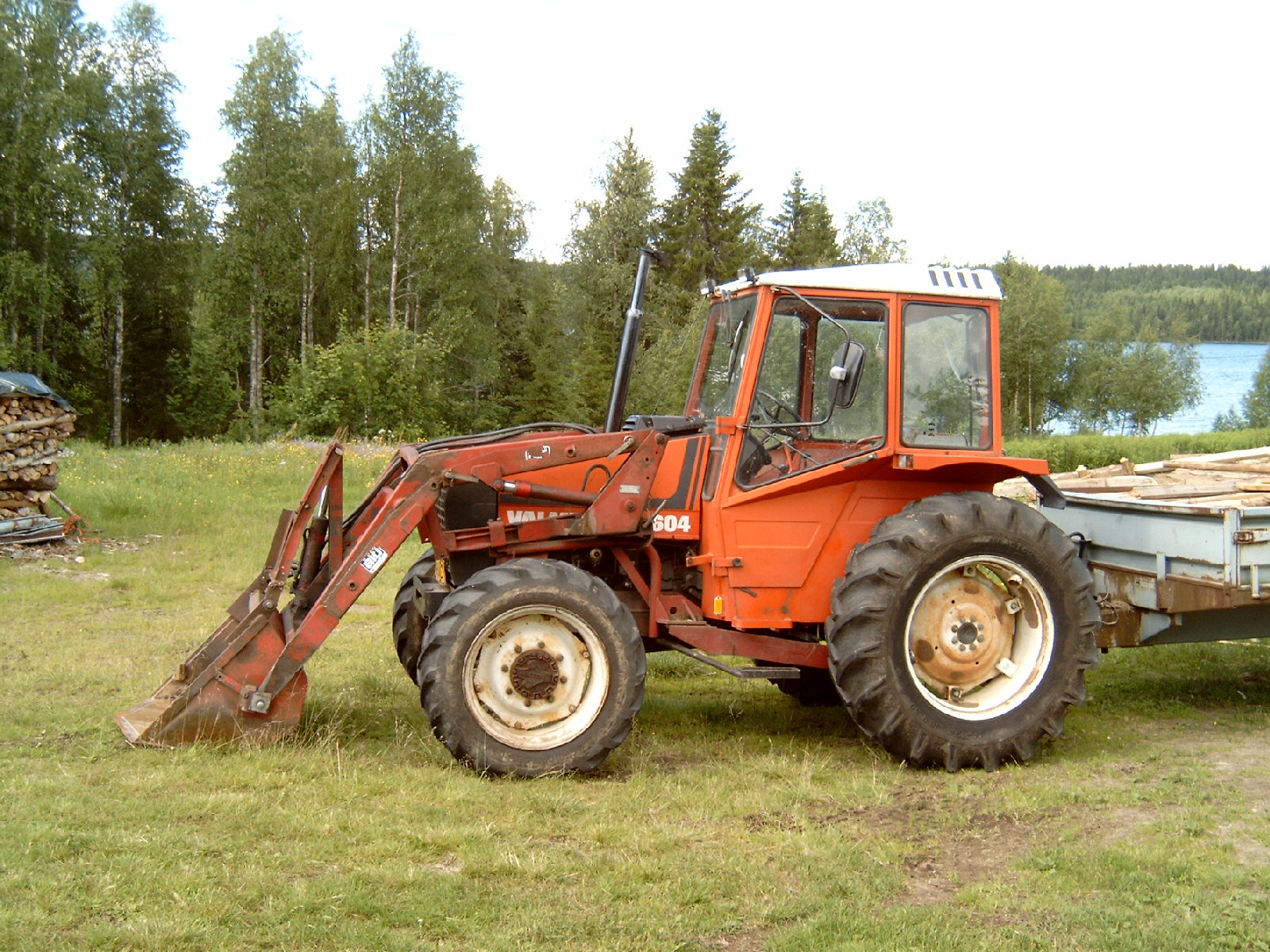 Tractor: Valmet 604, 4WD